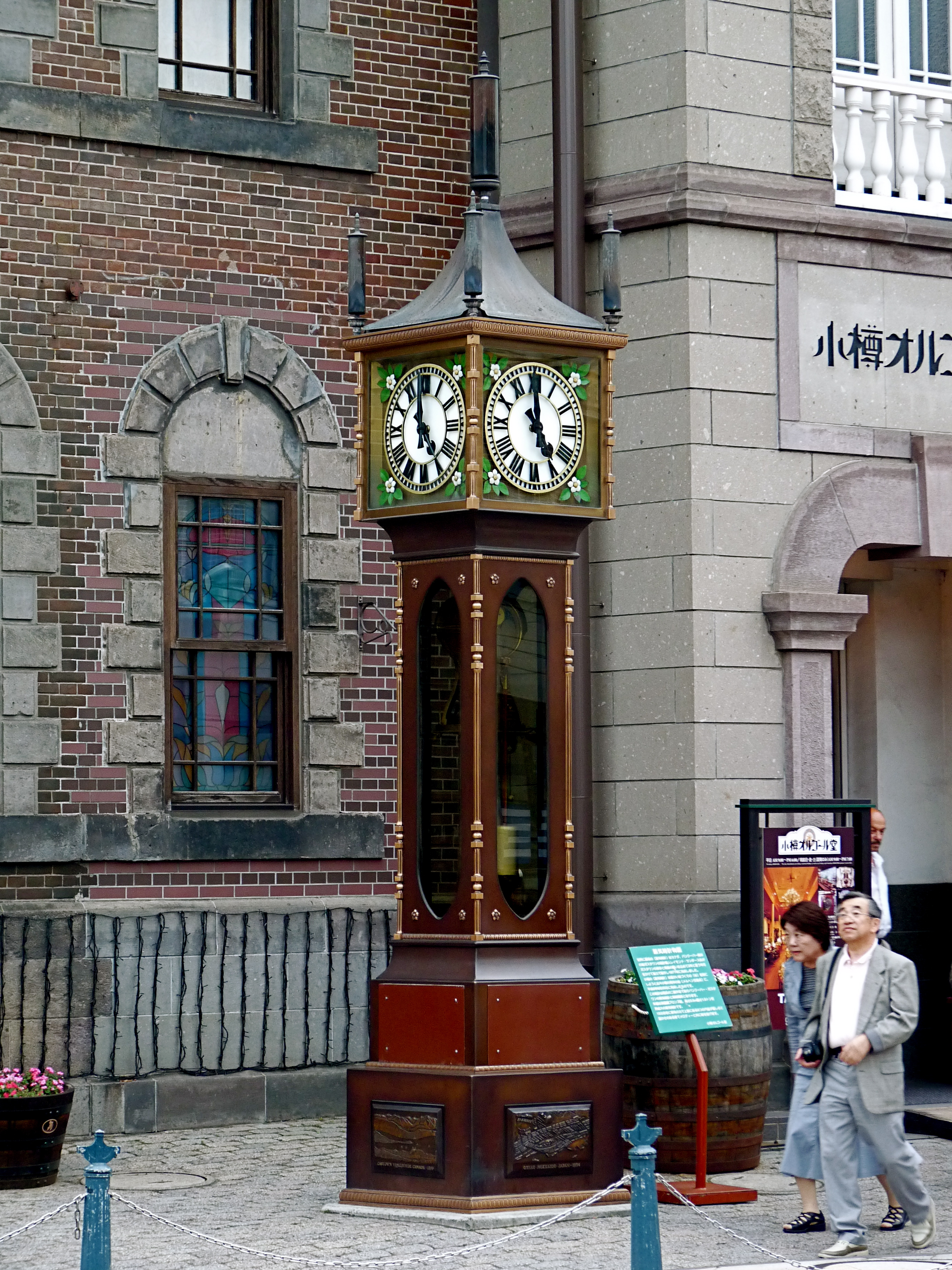 On June 25,1994, the world's largest and second ever steam clock was installed in front of Otaru Orugoru-do, a popular music box store, on the Marchen intersection. The British-style bronze clock measures 5.5 meters high and weighs 1.5 tons. It was assembled by Mr. Raymond Sanders, who also made the first steam clock located in Gastown, Vancouver, Canada. (Source: The Yamasa Institute). A steam clock is a clock which is fully or partially powered by a steam engine. Only a few functioning steam clocks exist, most designed and built by Canadian horologist Raymond Saunders for display in urban public spaces. Steam clocks built by Saunders are located in Otaru, Japan; Indianapolis, USA; and the Canadian cities of Vancouver, Whistler and Port Coquitlam, all in British Columbia. Steam clocks by other makers are installed in Jersey and at the Chelsea Farmers' Market in London, England. Although they are often styled to appear as 19th-century antiques, steam clocks are a more recent phenomenon inspired by the Gastown steam clock built by Saunders in 1977. (Source: Wikipedia). Public Clock Photography by Arjan Richter